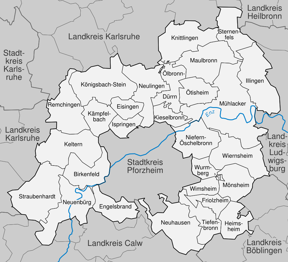 municipalities in Enzkreis, Baden-Württemberg, Germany.